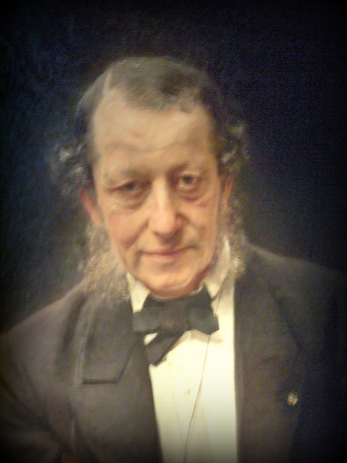 Moritz G. Melchior, detail from painting by Bertha Wegmann